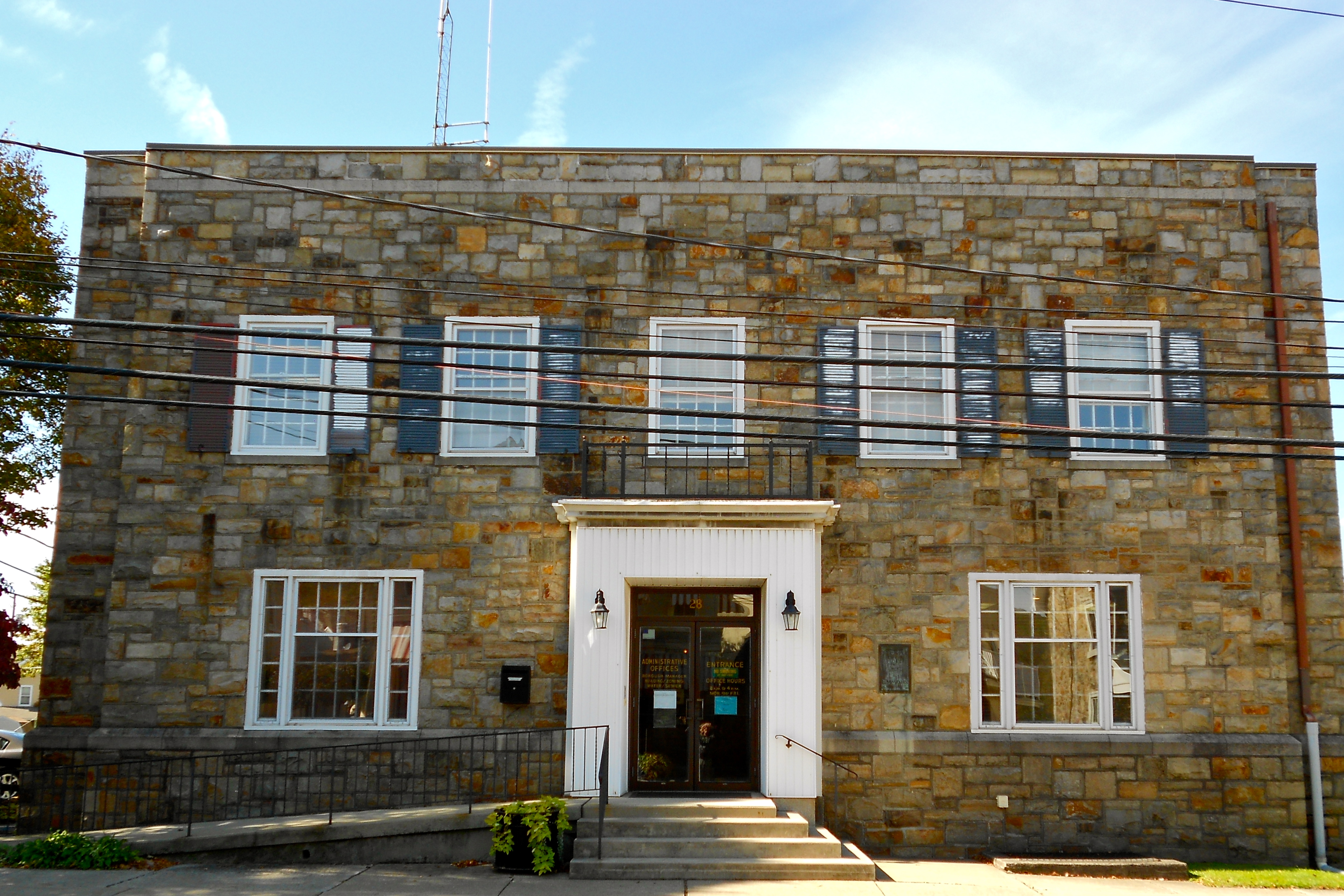 Borough Hall in Emmaus, Lehigh County, Pennsylvania